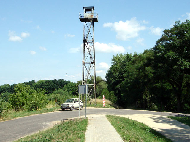 Górzyca, old border watchtower overlooking Oder River